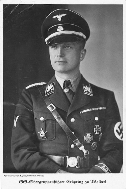 Josias, Hereditary Prince of Waldeck and Pyrmont, here with the rank of an SS-Obergruppenführer of the Allgemeine SS, Portrait Card.